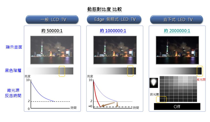 A comparison of a fluorescent backlit LCD, an LED backlight panel with scattering (edge ​​lit LED) and an LED TV. (LED TV - televisions with LCD and LED)